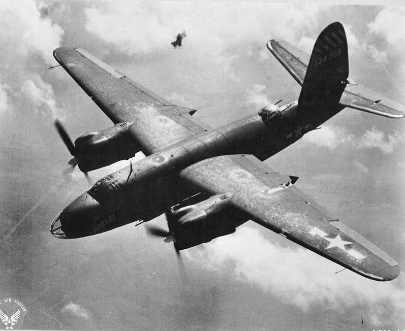 "Lorelei" B-26C-15-MO Marauder s/n 41-34968 558th BS, 387th BG, 9th AF Shot down on June 23,1944.